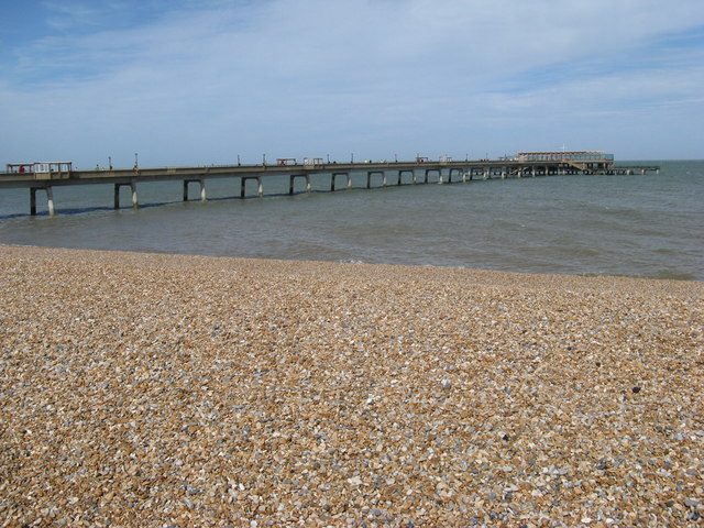 Deal - The Pier Photograph of the pier at Deal taken from coastal path